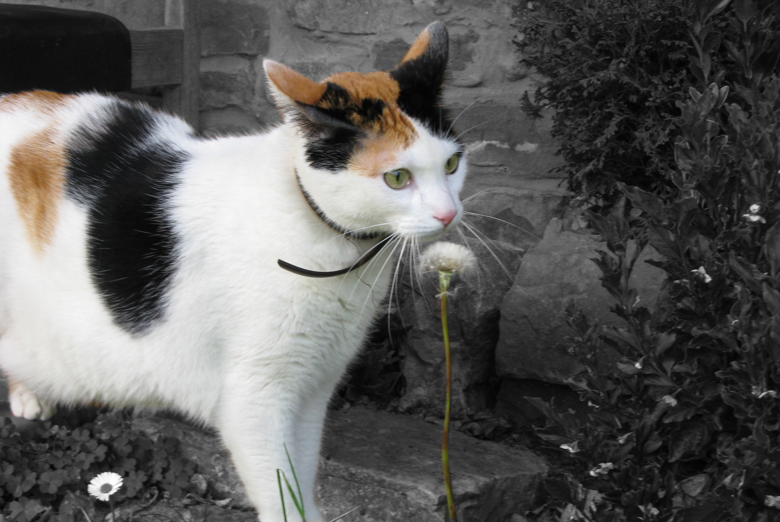 My cat "Virtulinda"